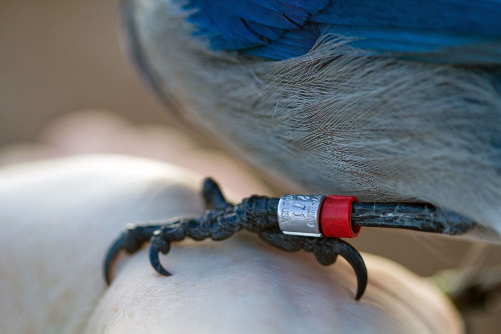 Two leg rings on a Florida Scrub Jay in Florida, USA.